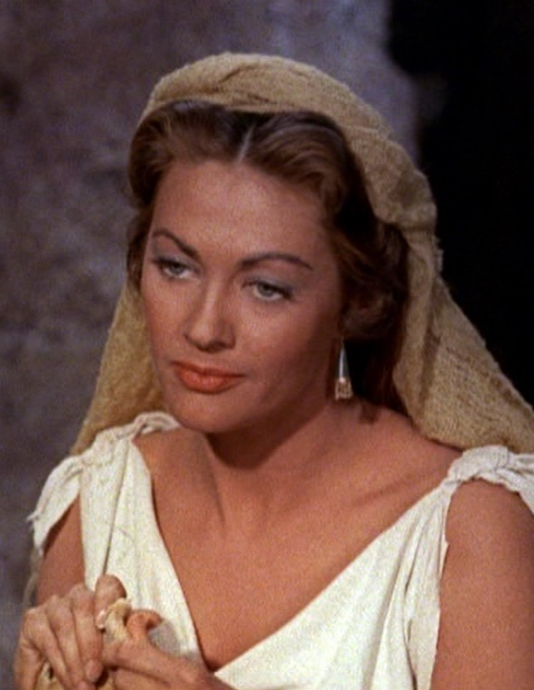 Cropped screenshot of Yvonne De Carlo from the trailer for the film The Ten Commandments.